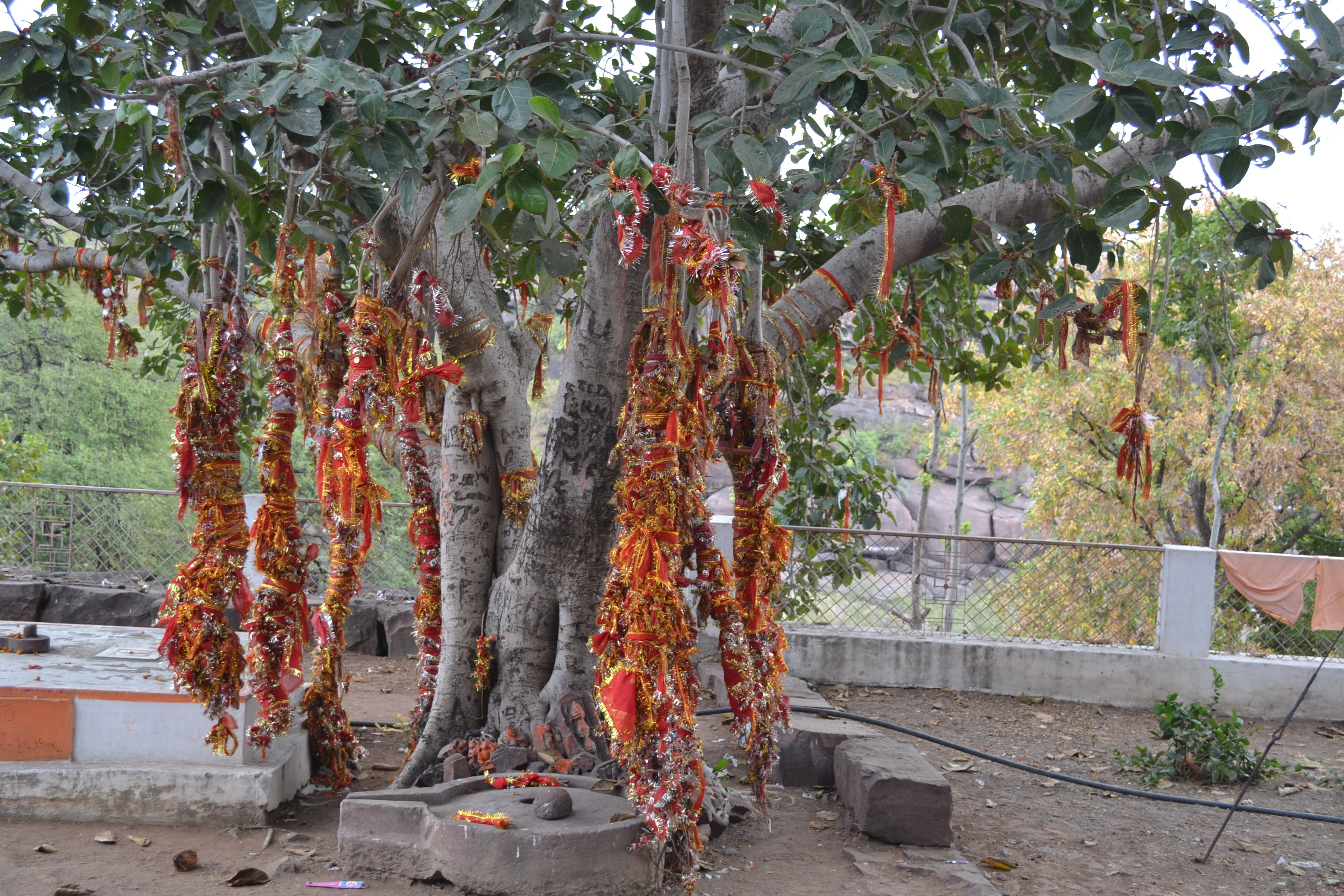 Shiv Temple, Bhojpur